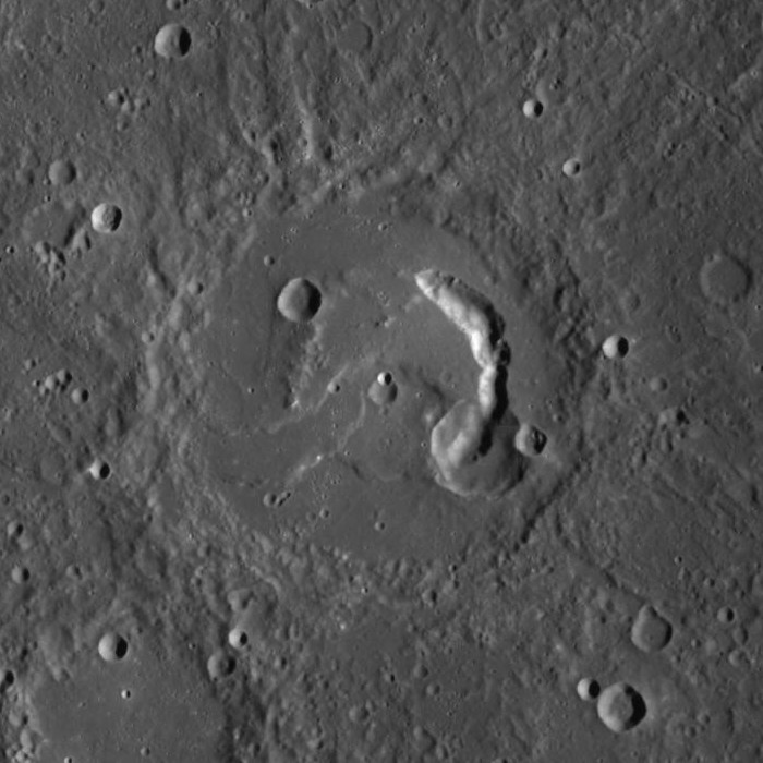 Picasso crater, on Mercury. MESSENGER Wide Angle Camera mosaic. Image is approximately 230 km wide.